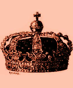 Crown of the Queen of Sweden (made for Louise Ulrica in 1751), as released by image scanner Ristesson